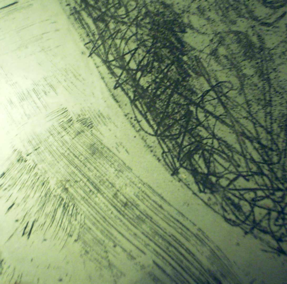 Image of an Acid Etching Technique